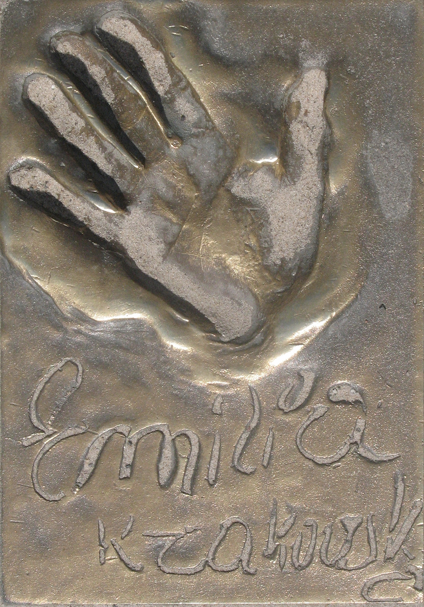 Emilia Krakowska - handprint and signature in Międzyzdroje.